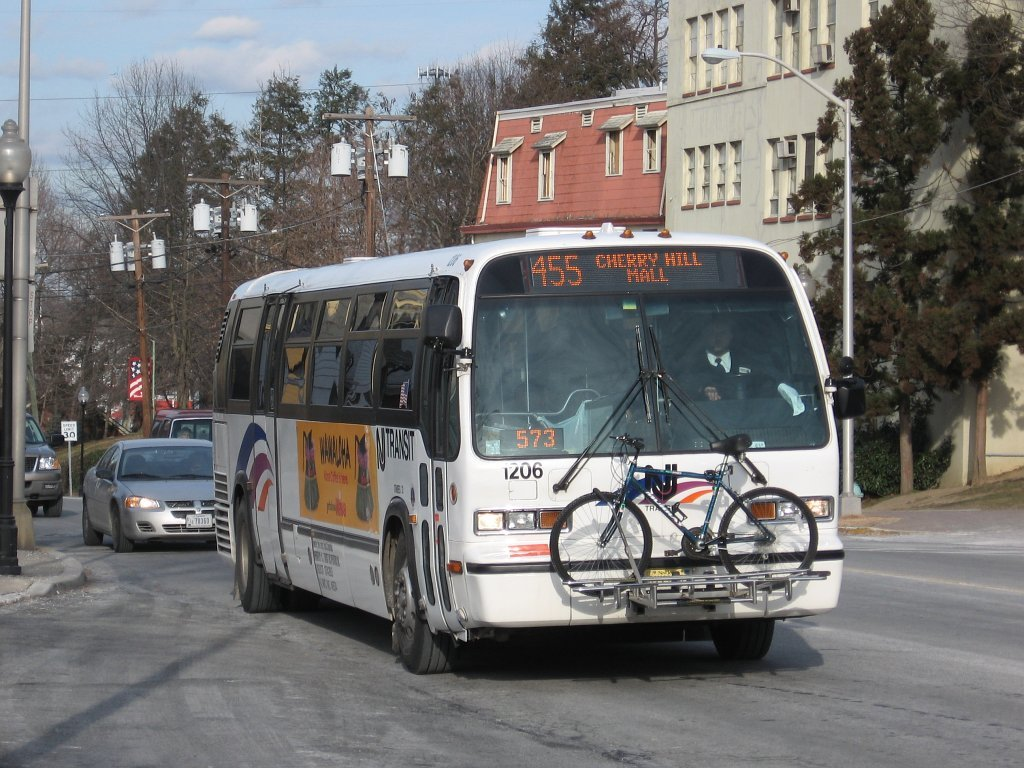 New Jersey Transit #1206 operates through Woodbury, New Jersey, on the 455 line.